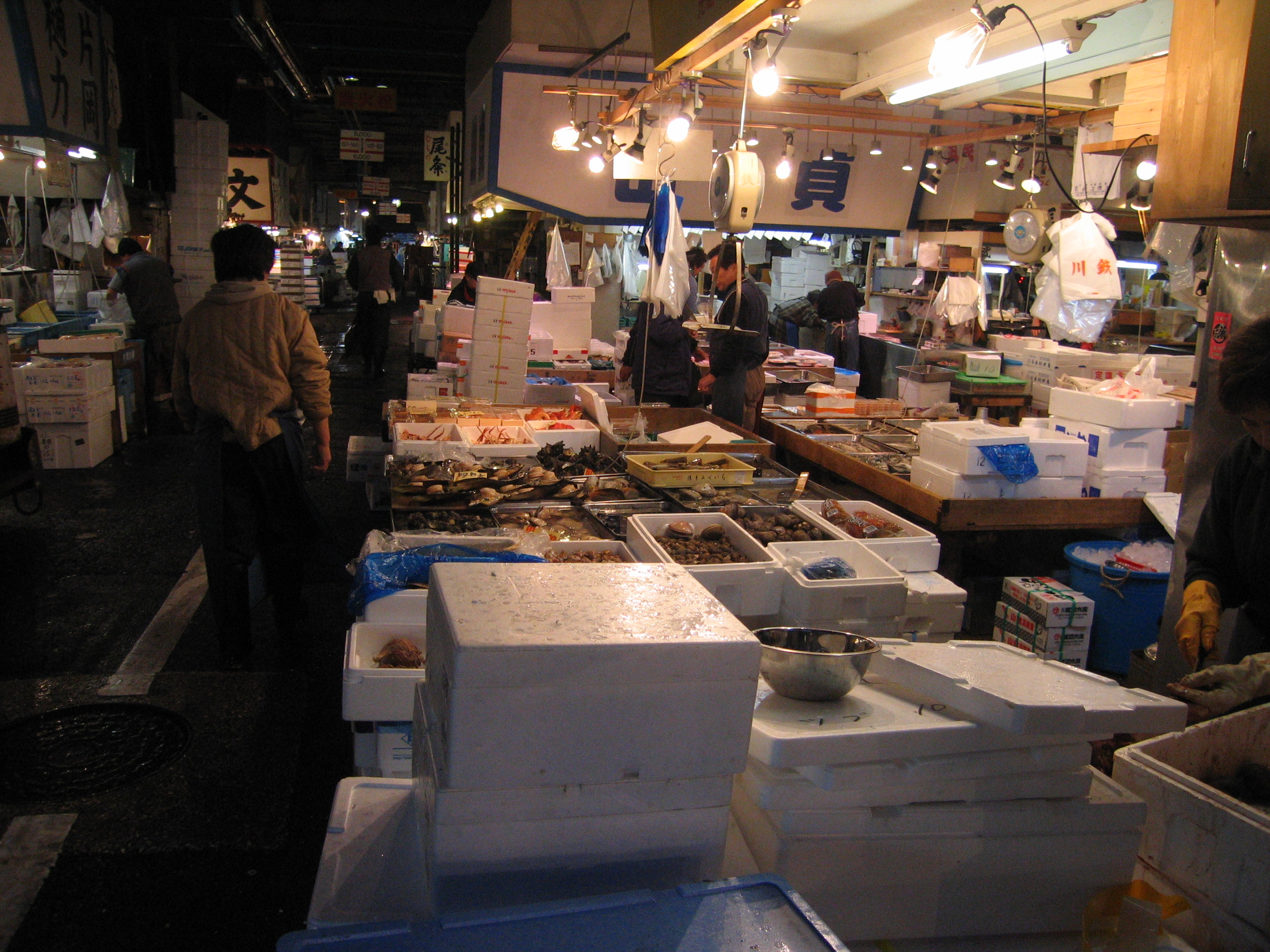 Author is User:Fisherman. It is Tsukiji Fish Market.